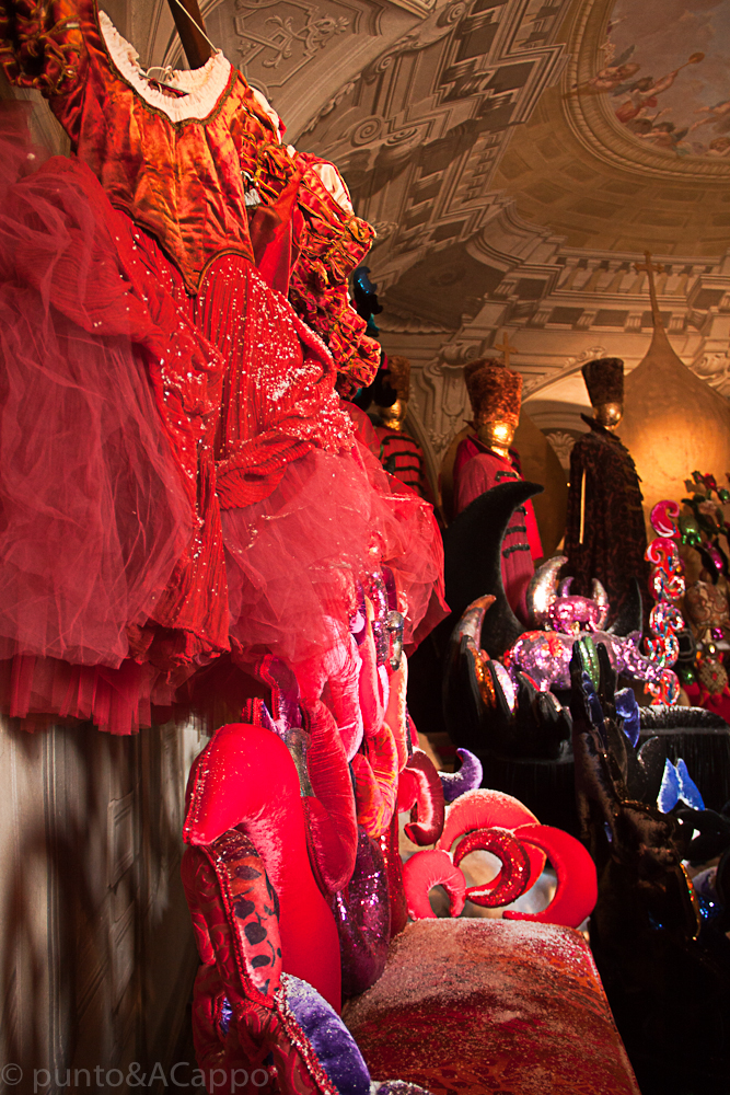 Theater and cinema costumes at the Fondation Cerratelli - Italy